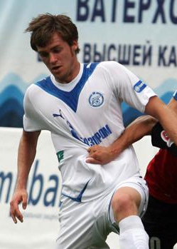 Nicolas Lombaerts against Khimki